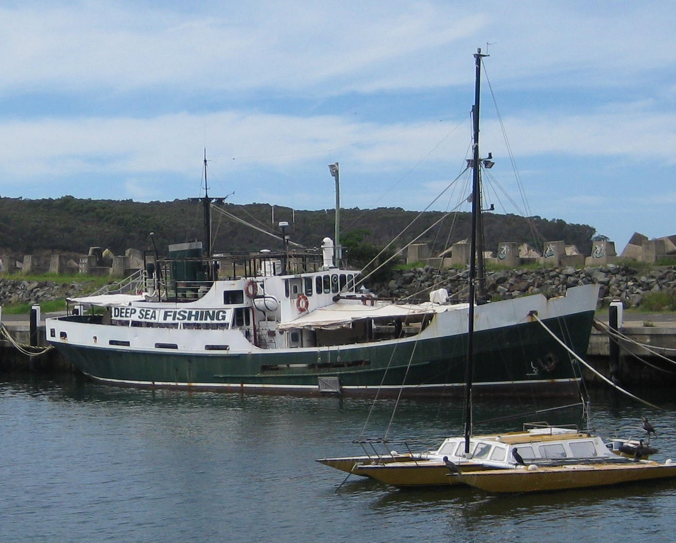 The former HMAS Banks (now MV Banks) docked at Ulladulla in 2011